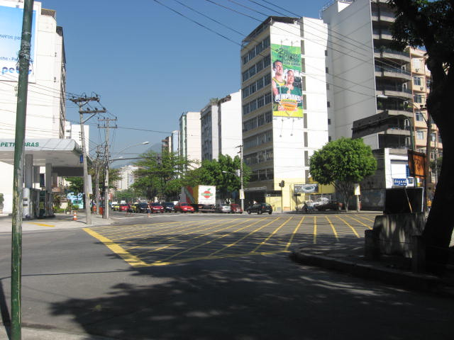 Maracanã, Rio de Janeiro, Brazil